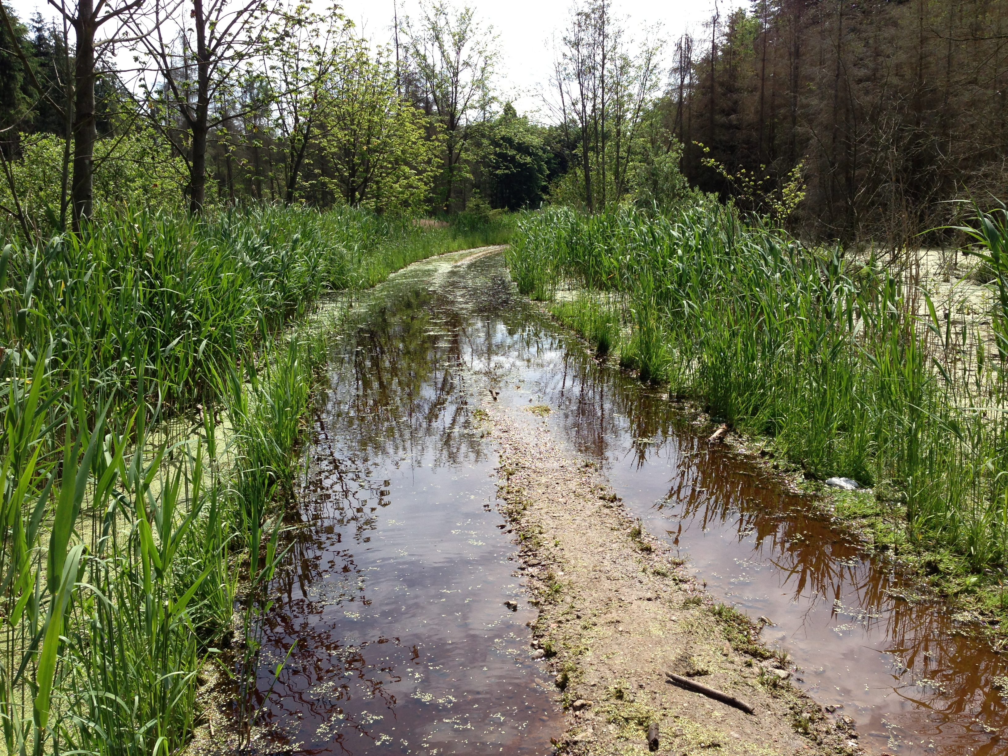 Way to the Polish border at Torfkanal in Korswandt, district Vorpommern-Greifswald, Mecklenburg-Vorpommern, Germany